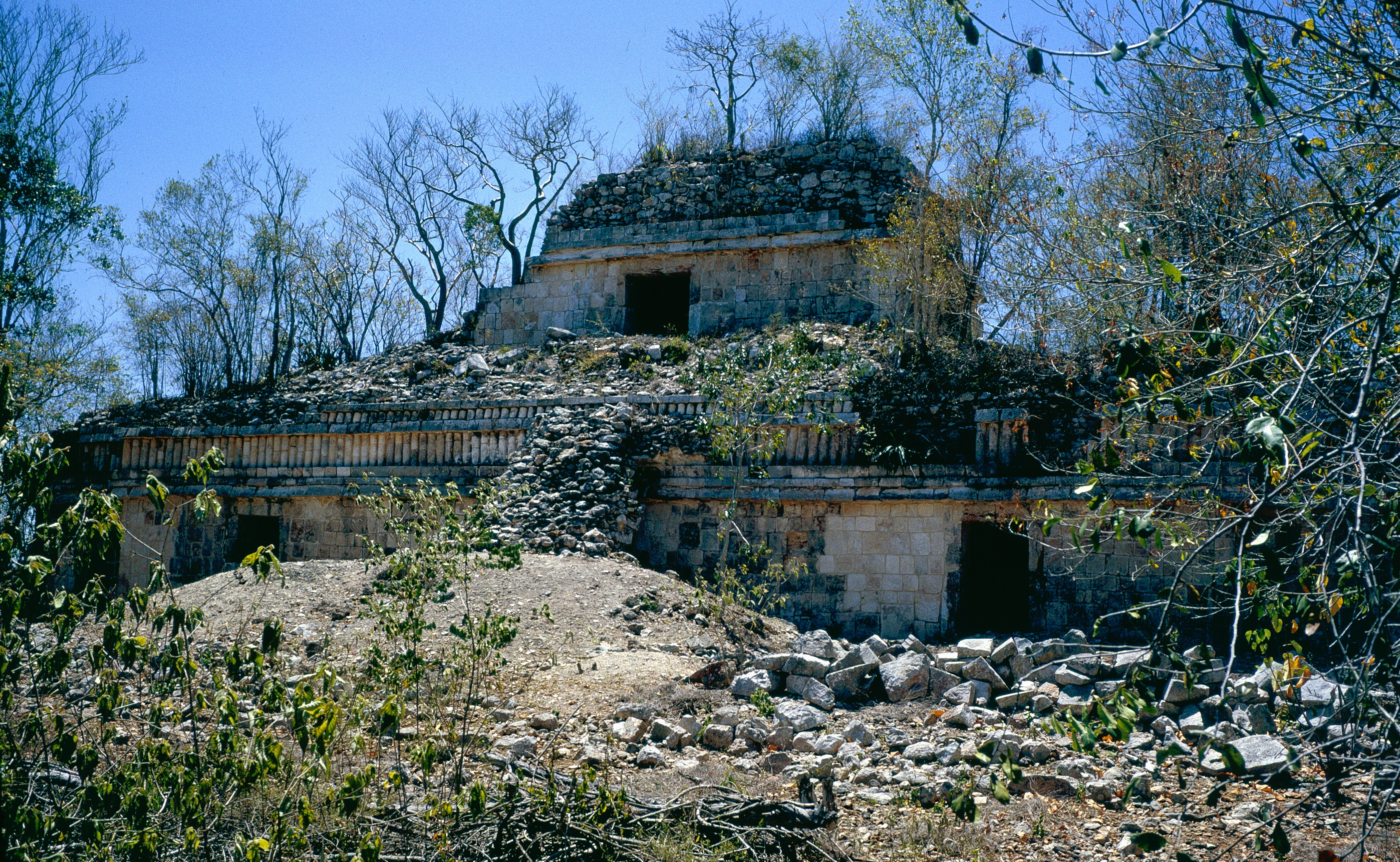 Labna, Yucatan, Mexico: outlier Xcanelcruz